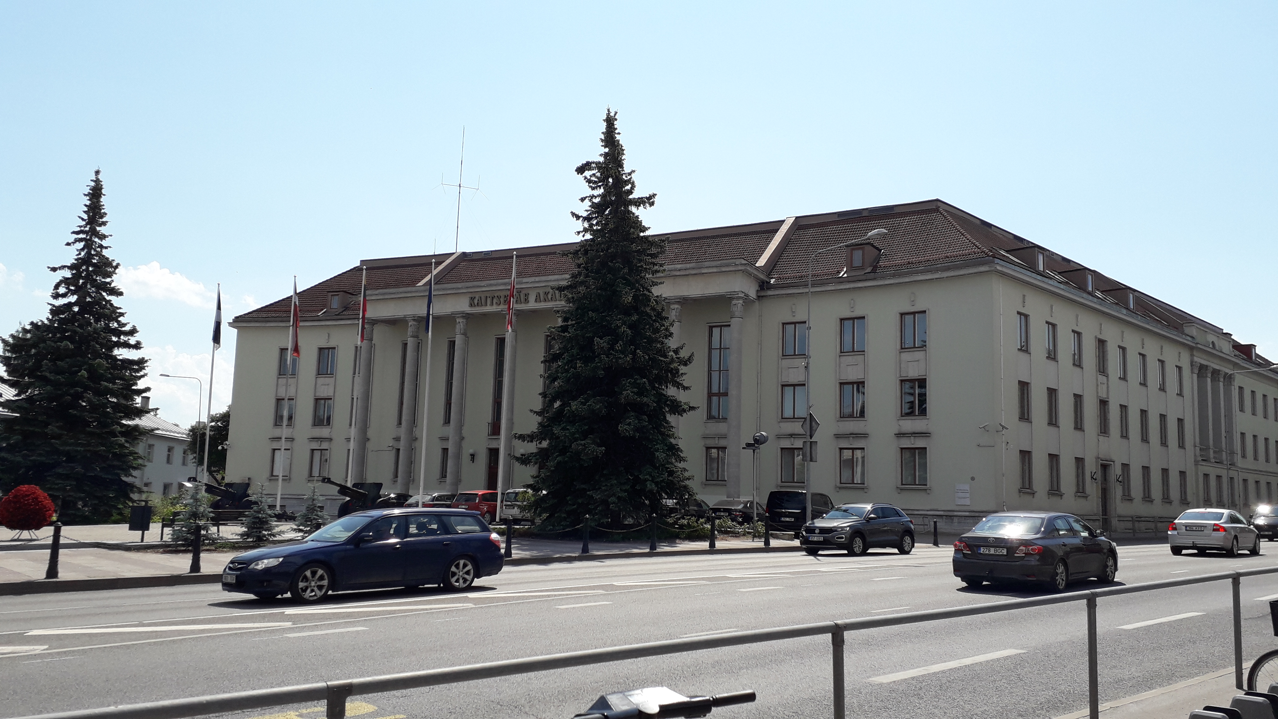 Kaitseväe Akadeemia hoone